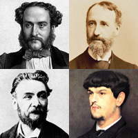 The French musicians Georges Mathias, Theodore Dubois, Ernest Guiraud and Claude Debussy.